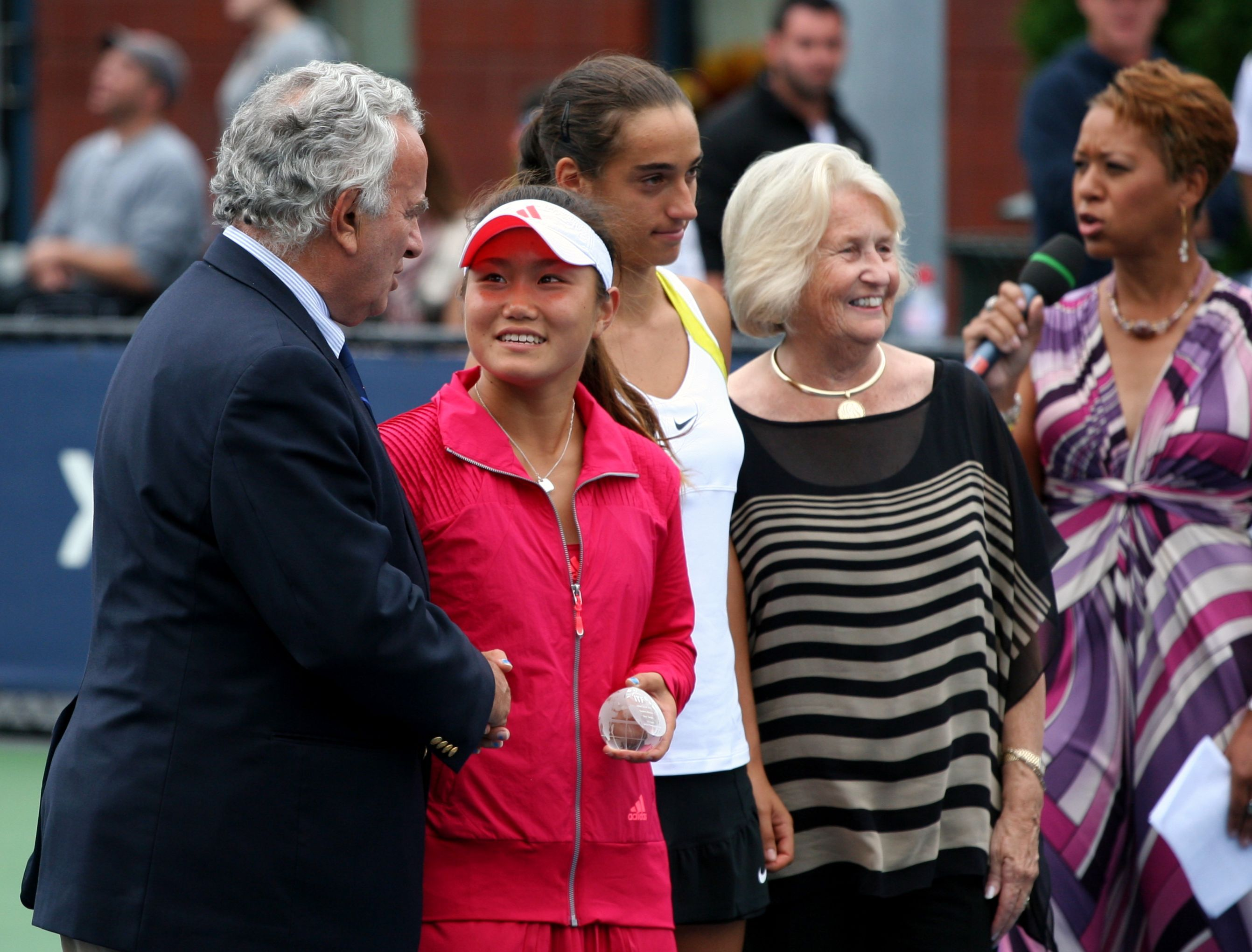 U.S. Open Girls' Final Sunday, Sept. 11, 2011